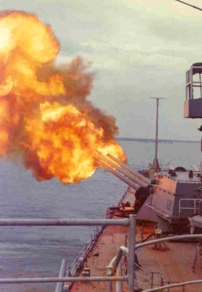 The United States Navy cruiser USS Newport News (CA-148) firing a her forward turret in 1972 during the Vietnam War.